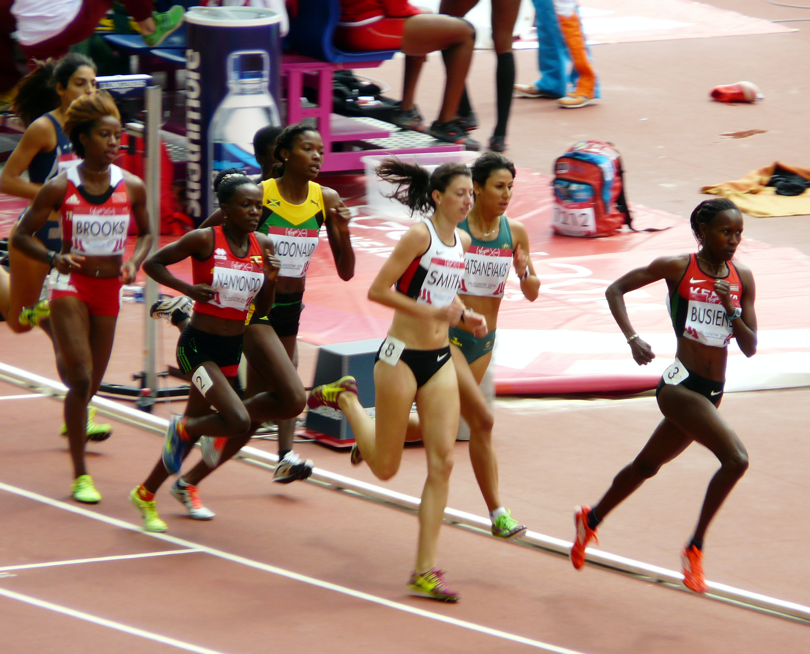 Hampden Park Glasgow Commonwealth Games Day 7 Athletics Morning Session Wednesday 30th July 2014. Women's 800m Round 1, Heat 2, Jessica Smith (Can), Winnie Nanyondo (Uga), Janeth Jepkosgei Busienei (Ken), Katherine Katsanevakis (Aus), Natalia Evangelidou (Cyp), Aleena Brooks (Tto), Kimara Mcdonald (Jam), Martha Bissah (Gha)